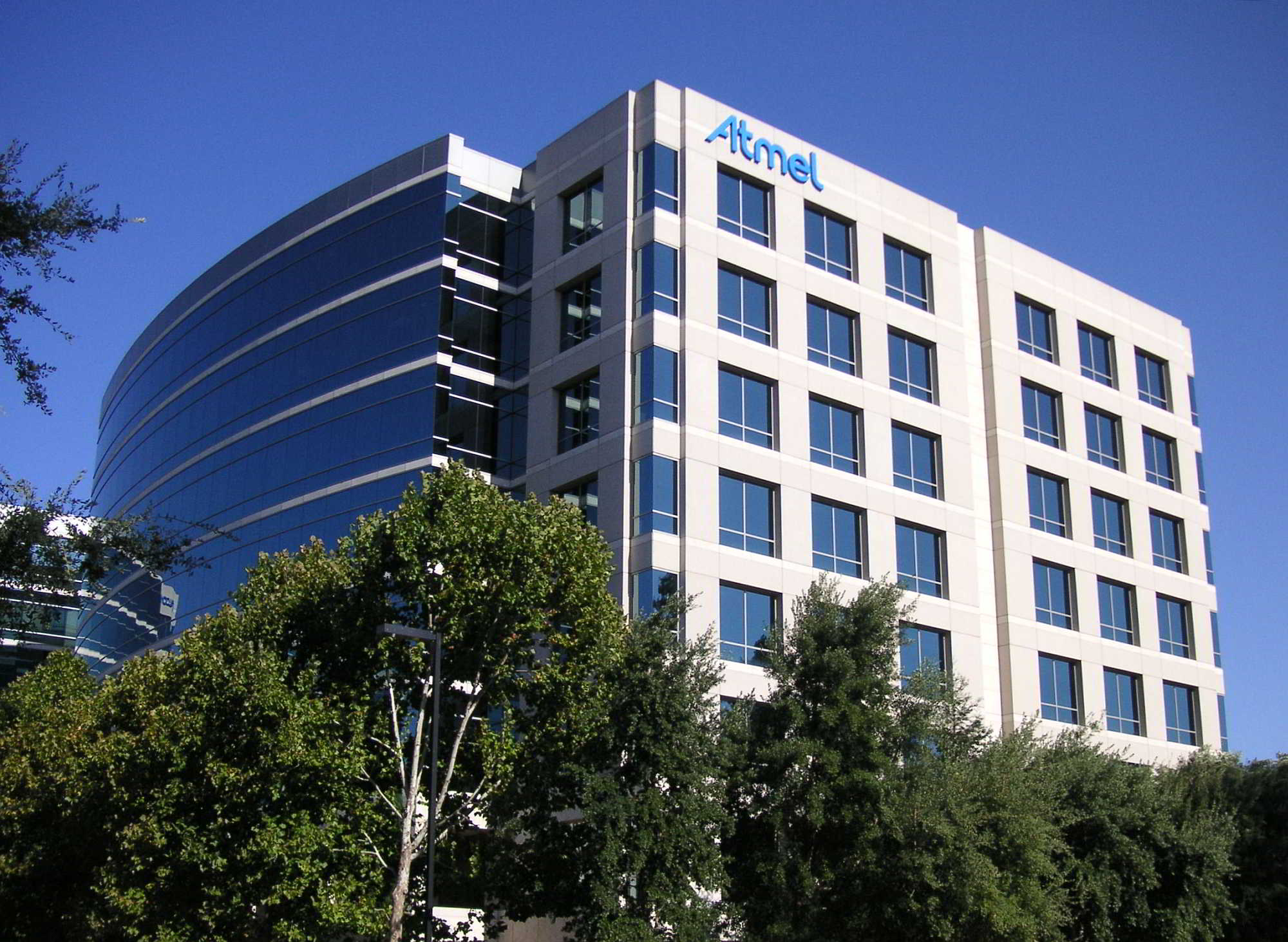 The Atmel corporate headquarters in San Jose California, view from the west, 2013.